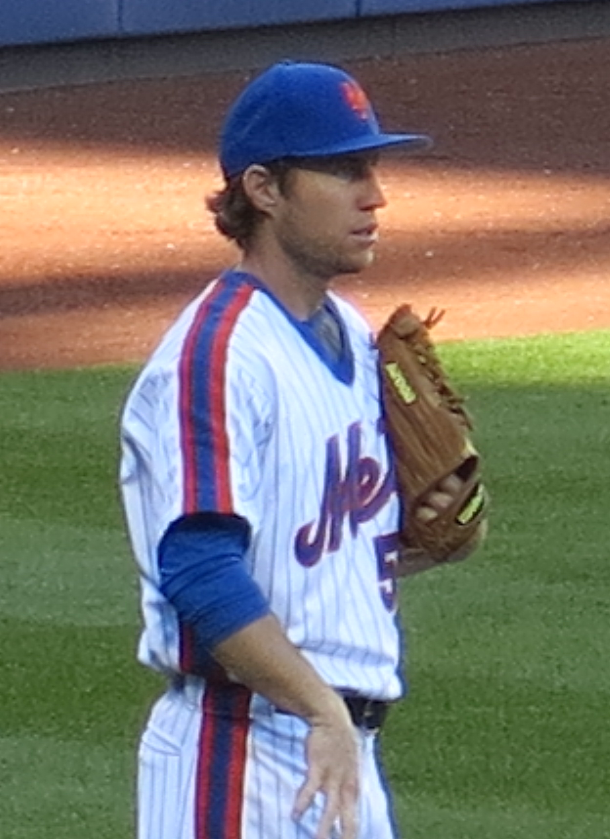 Ty Kelly of the New York Mets, September 25, 2016.